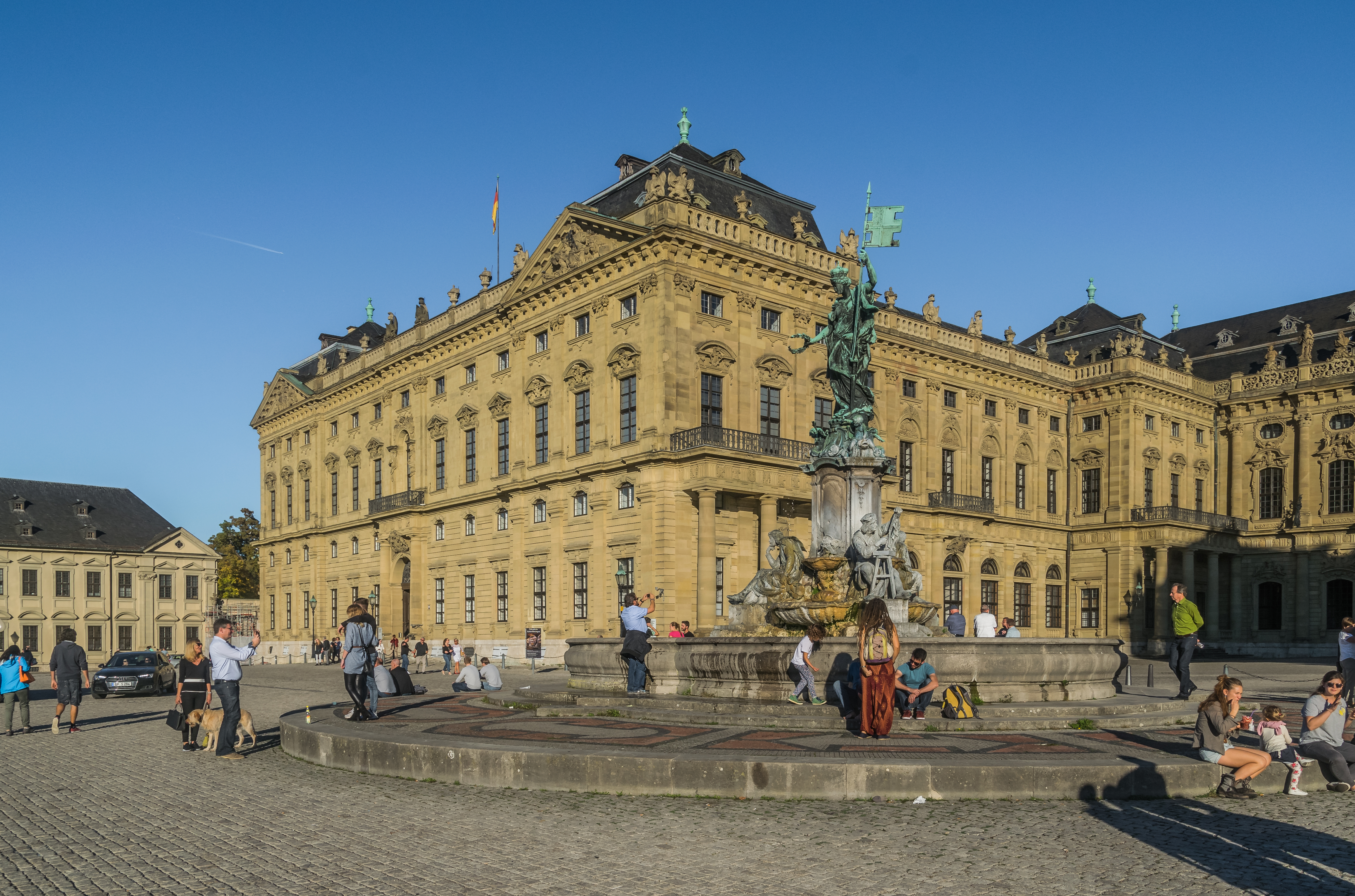 Würzburg Residence, Bavaria, Germany